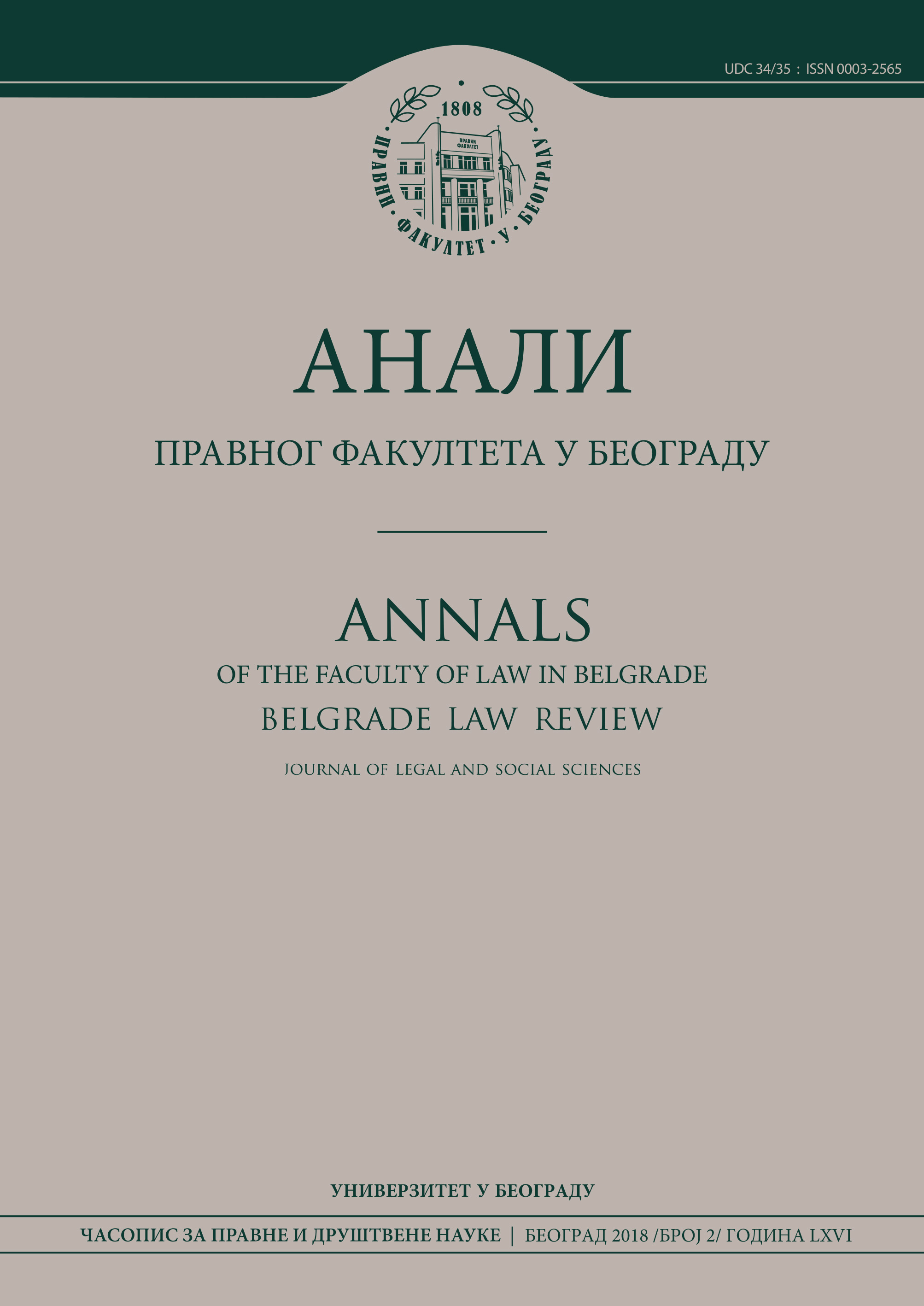 Cover of Serbian scientific journal Annals of The Faculty of Law in Belgrade Српски (ћирилица): Насловна страница српског научног часописа Анали Правног факултета у Београду